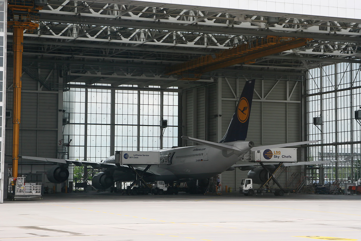 Munich (EDDM/MUC) Airport